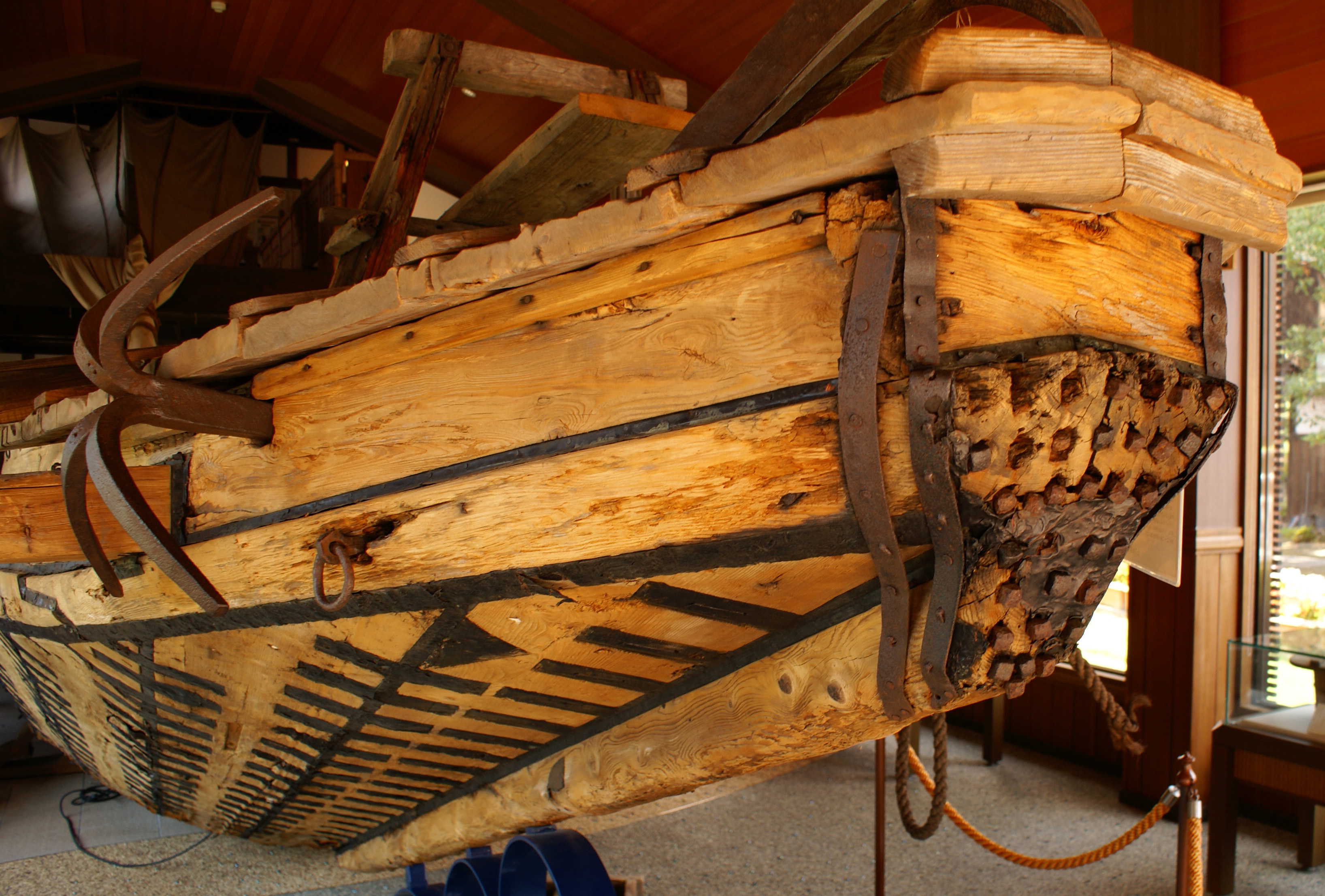 The bow of a Japanese traditional sailing vessel "marukobune".